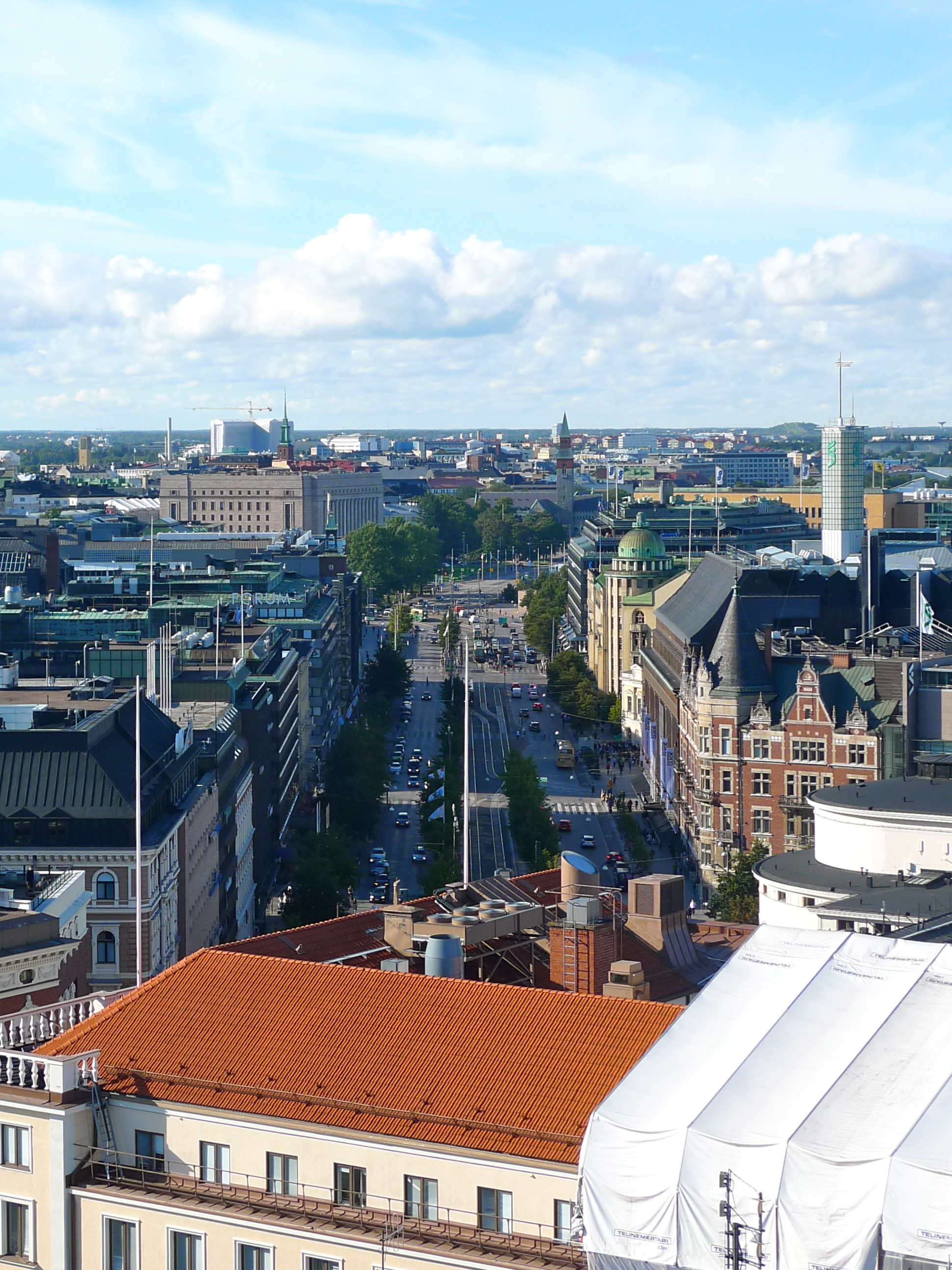 Southern end of Mannerheimintie in central Helsinki, seen from the tower of the Erottaja fire station.